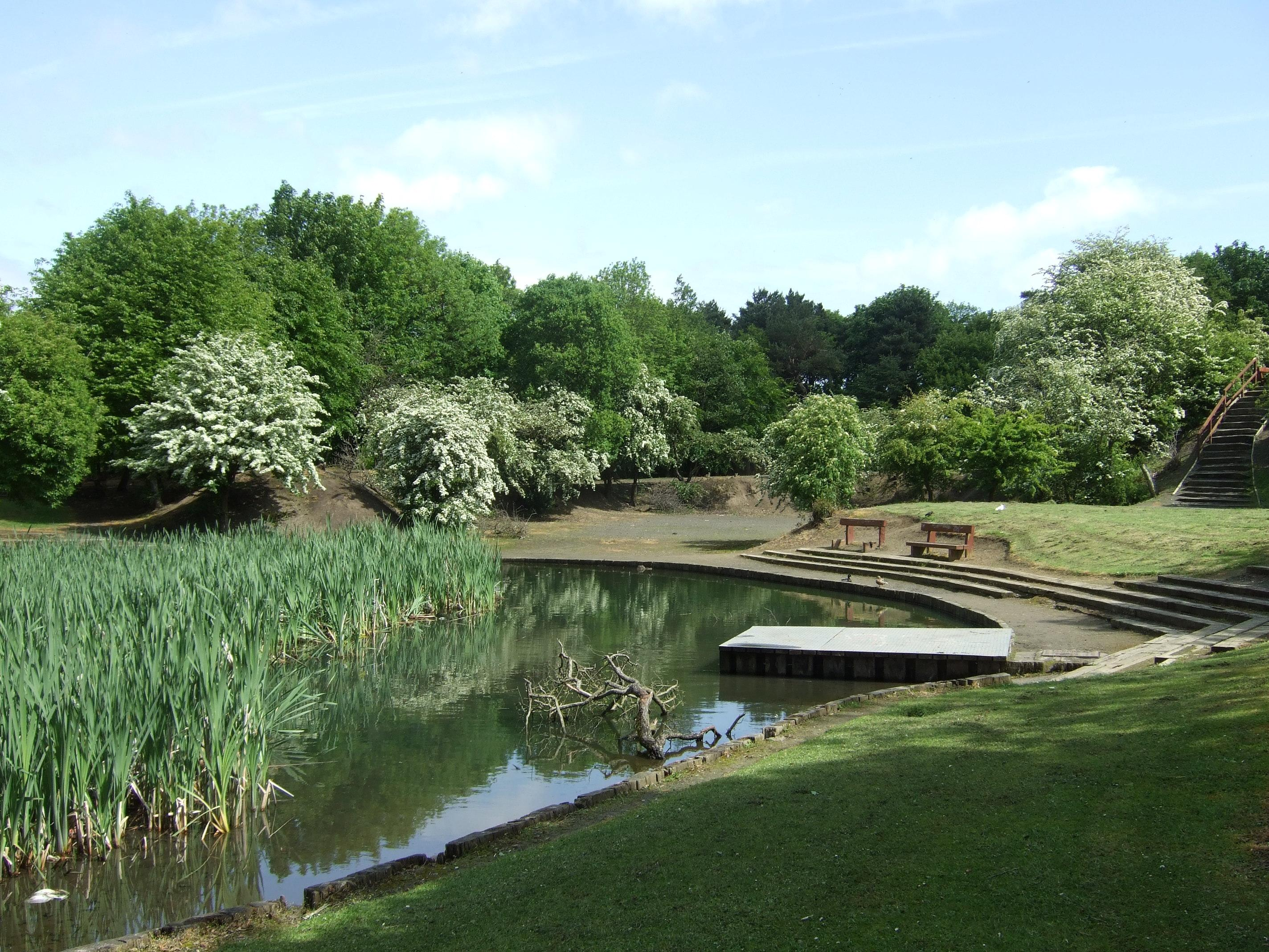 Staunton / Froggy Pond (adjacent to Staunton Rise) in Dedridge area of Livingston, West Lothian, Scotland, looking roughly east.